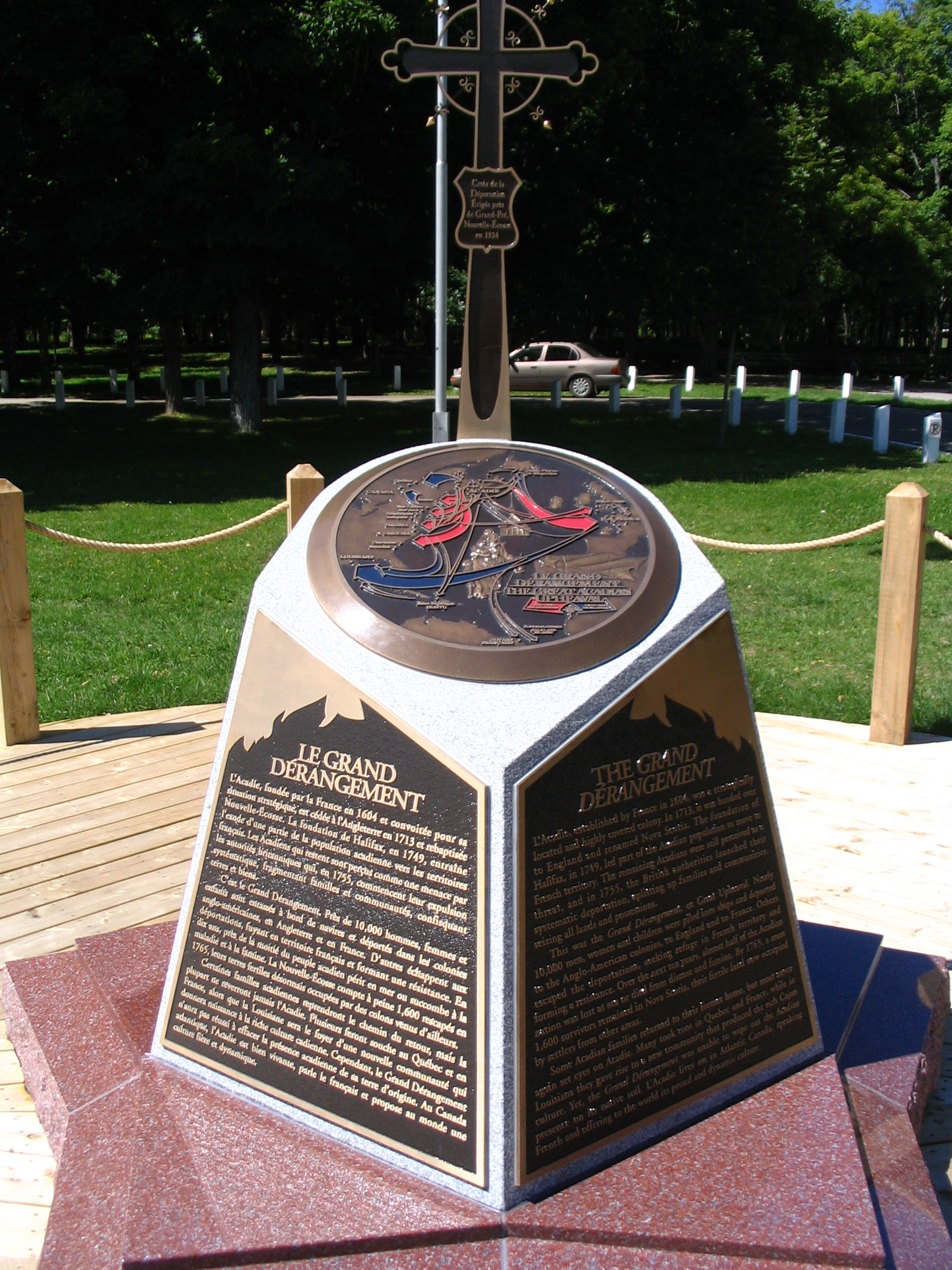 Monument commemorating the Great Upheaval in Caraquet, New Brunswick